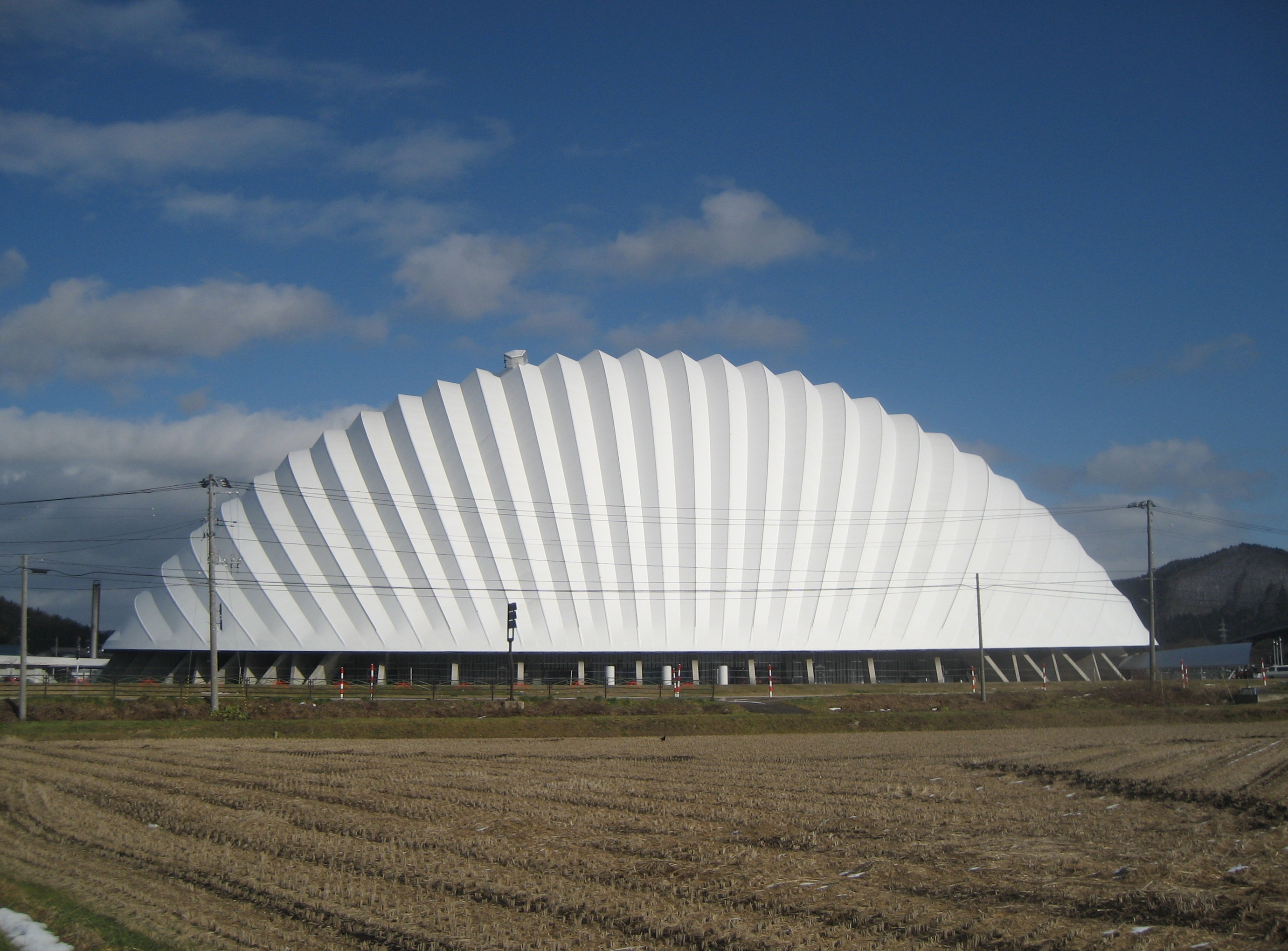 The Odate Jukai Dome stadium in Odate, Akita, Japan